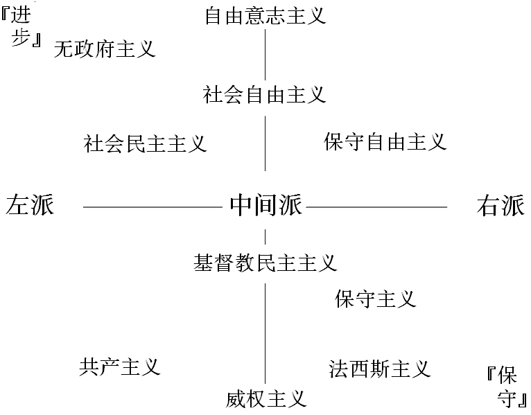 European-political-spectrum, based on the work of Slom, Hans; European Politics Into the Twenty-First Century: Integration and Division; 2000; pp32 中文（中国大陆）: 基于Slom, Hans的欧洲政治光谱